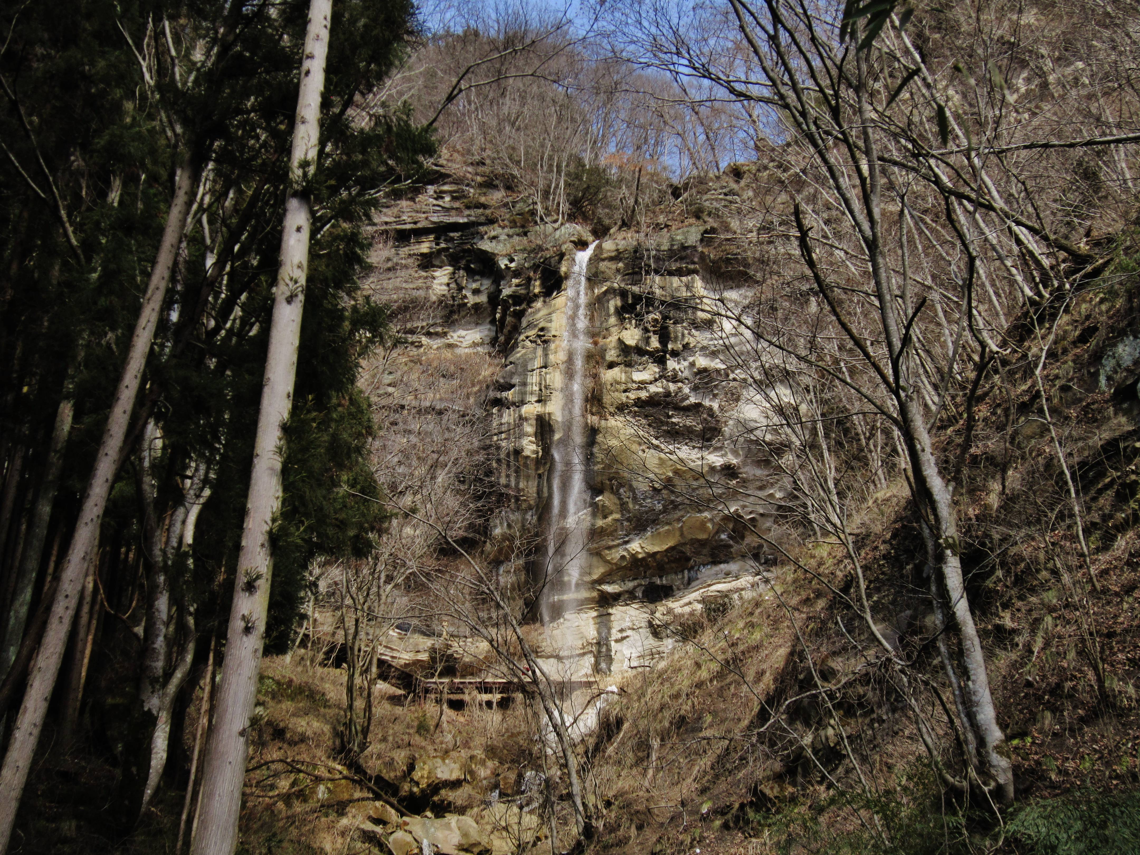 Yasaka no ōtaki waterfall.